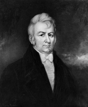 Levin Winder, former Governor of Maryland.